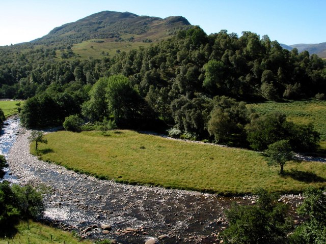 River Calder The view across the River Calder, from Glen Banchor to Creag Dhubh, Newtonmore.